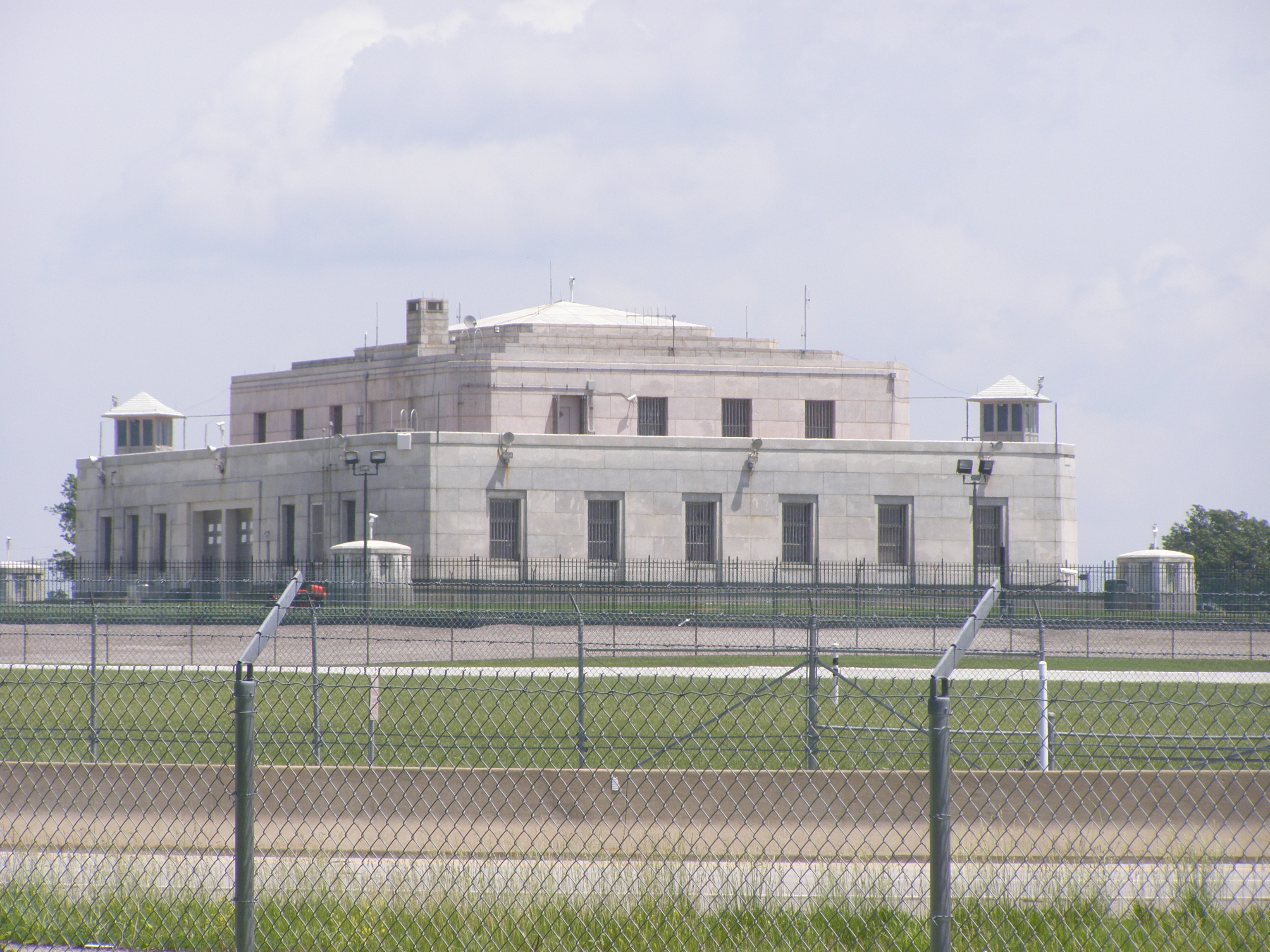 U.S. Bullion Depository at Fort Knox wayside on the Dixie Highway (U.S. 31W - U.S. 60).